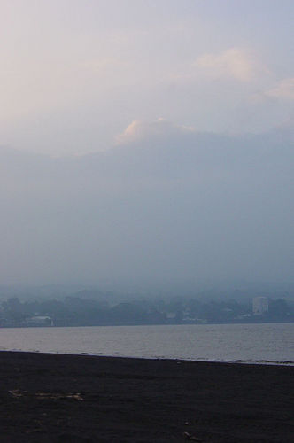 Vog at Hilo Bay.